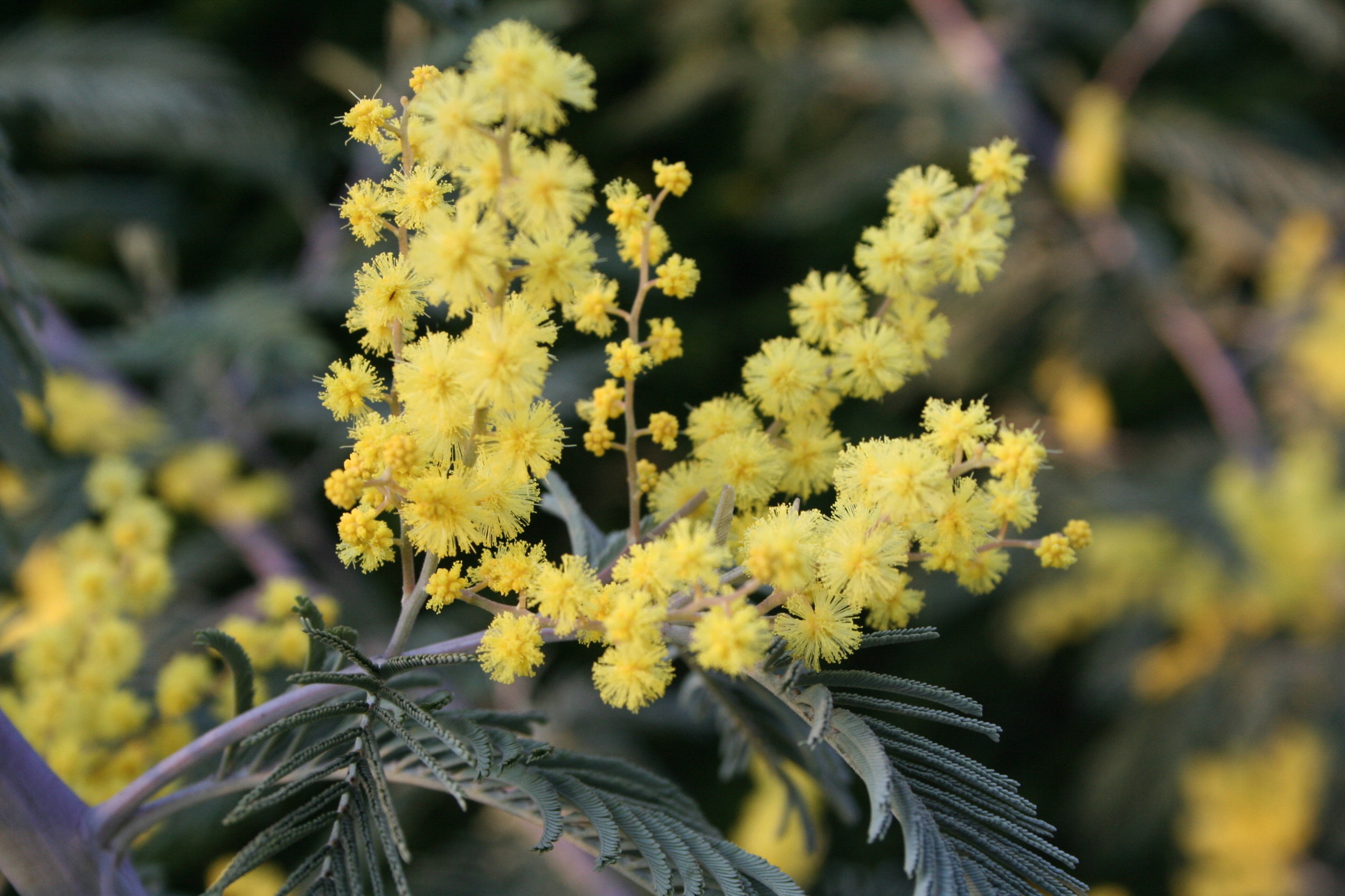 Acacia dealbata (Silver Wattle or Mimosa) in a garden near Paris.